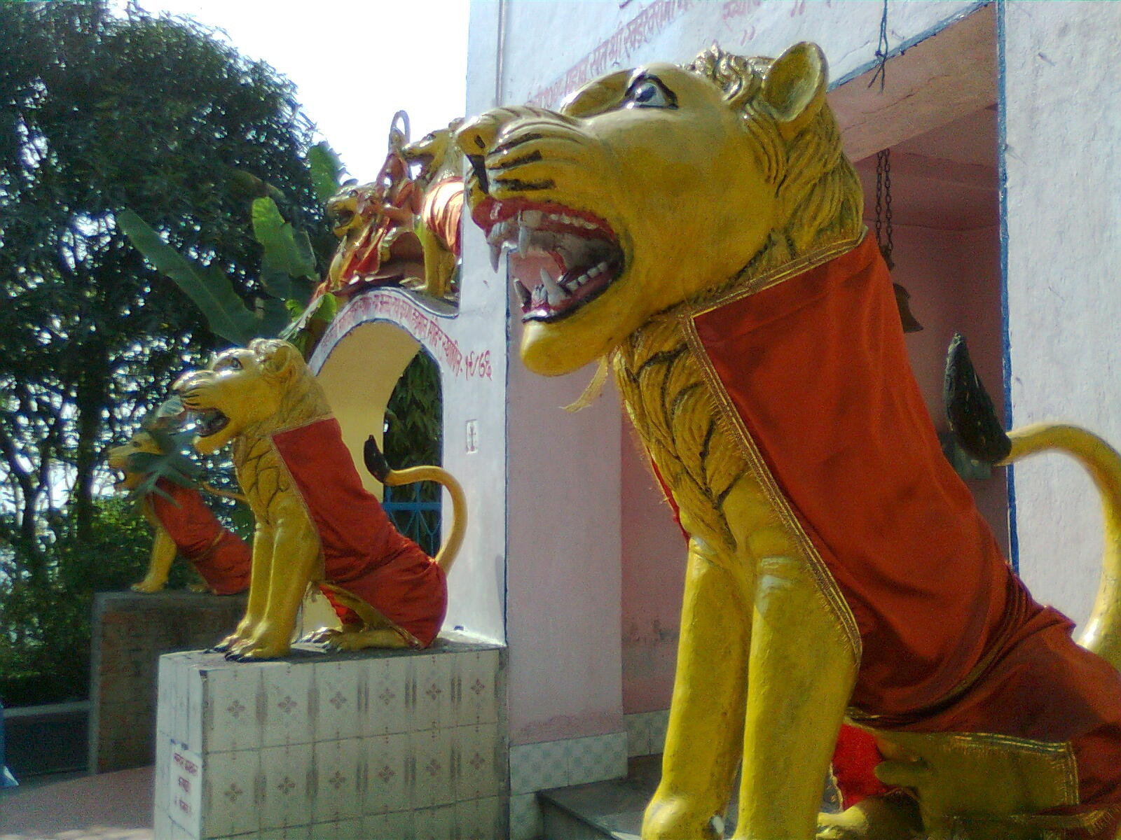 Pahari Mandir is the very famous Temple situated in Dugda.